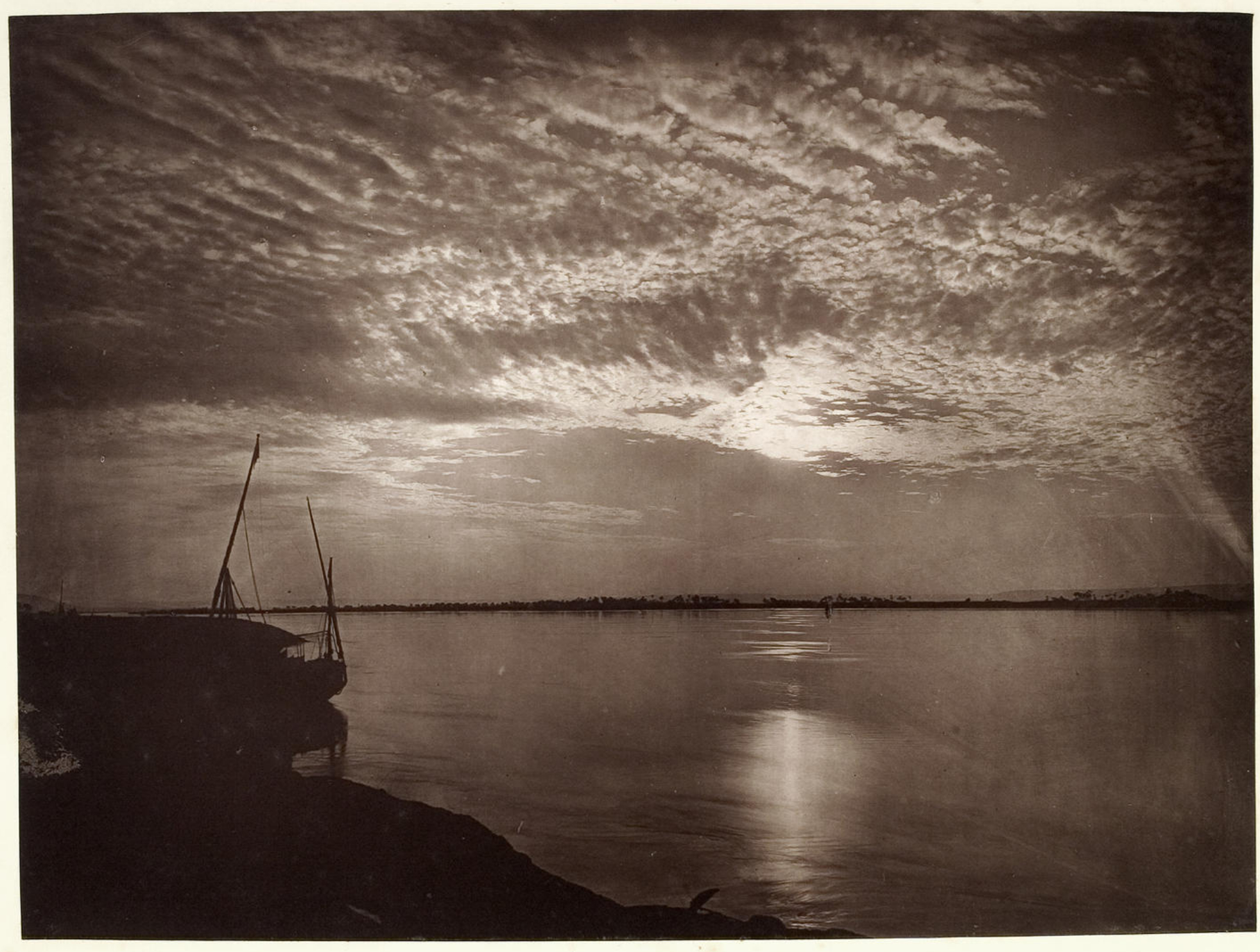 in 1874, William de Wiveleslie Abney went to Thebes on an archaeological expedition. This is the sun setting over the water; a boat is visible on the left side of the photo.